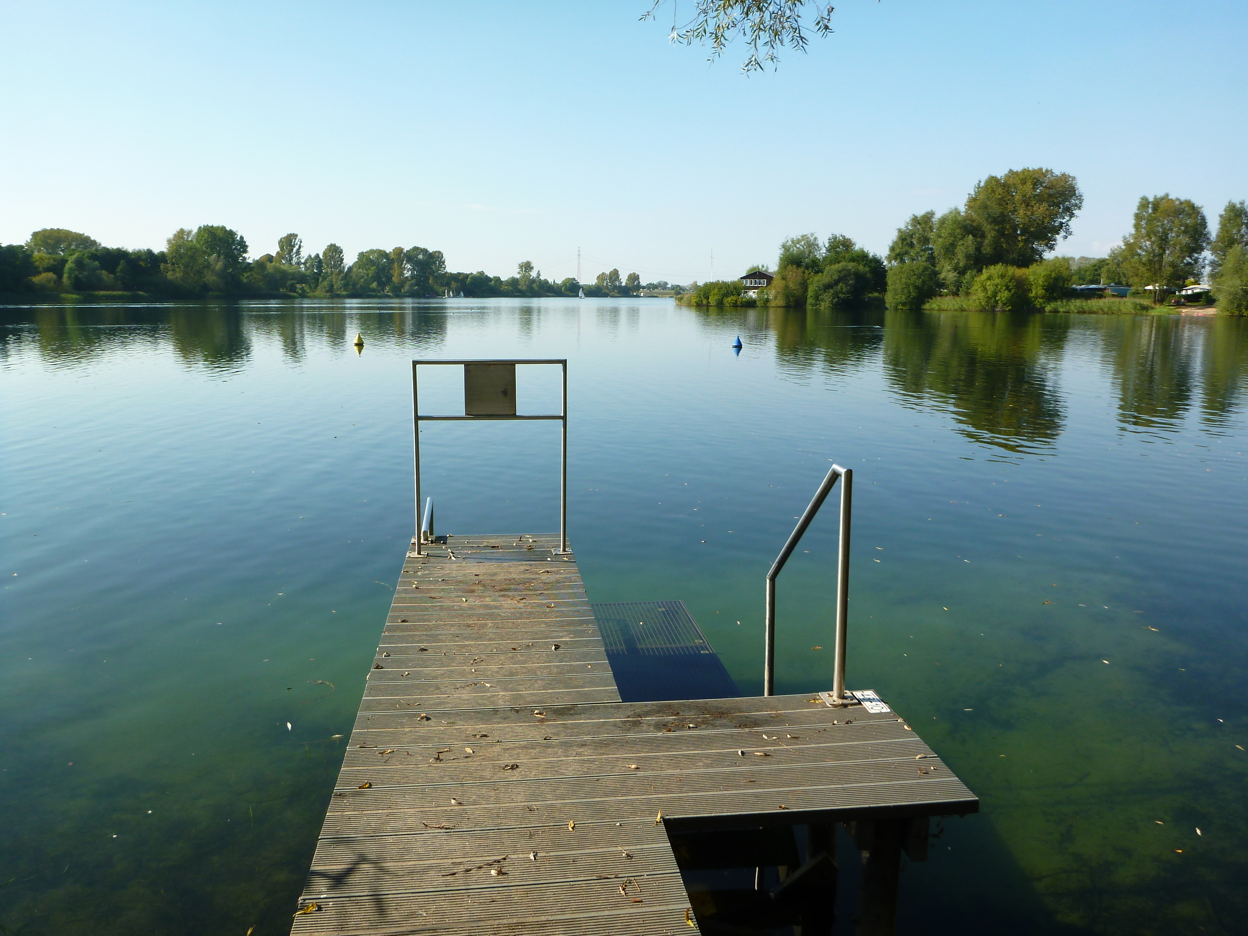 Diving sport in the Hohendeicher See.